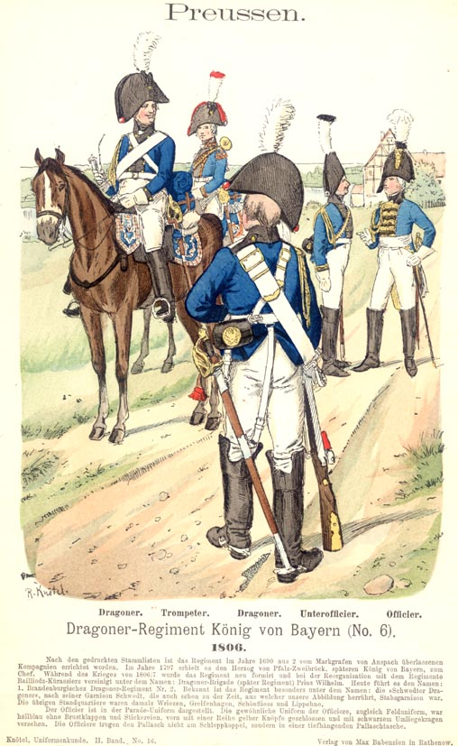 Preußen. Dragoner-Regiment König von Bayern No. 6. 1806